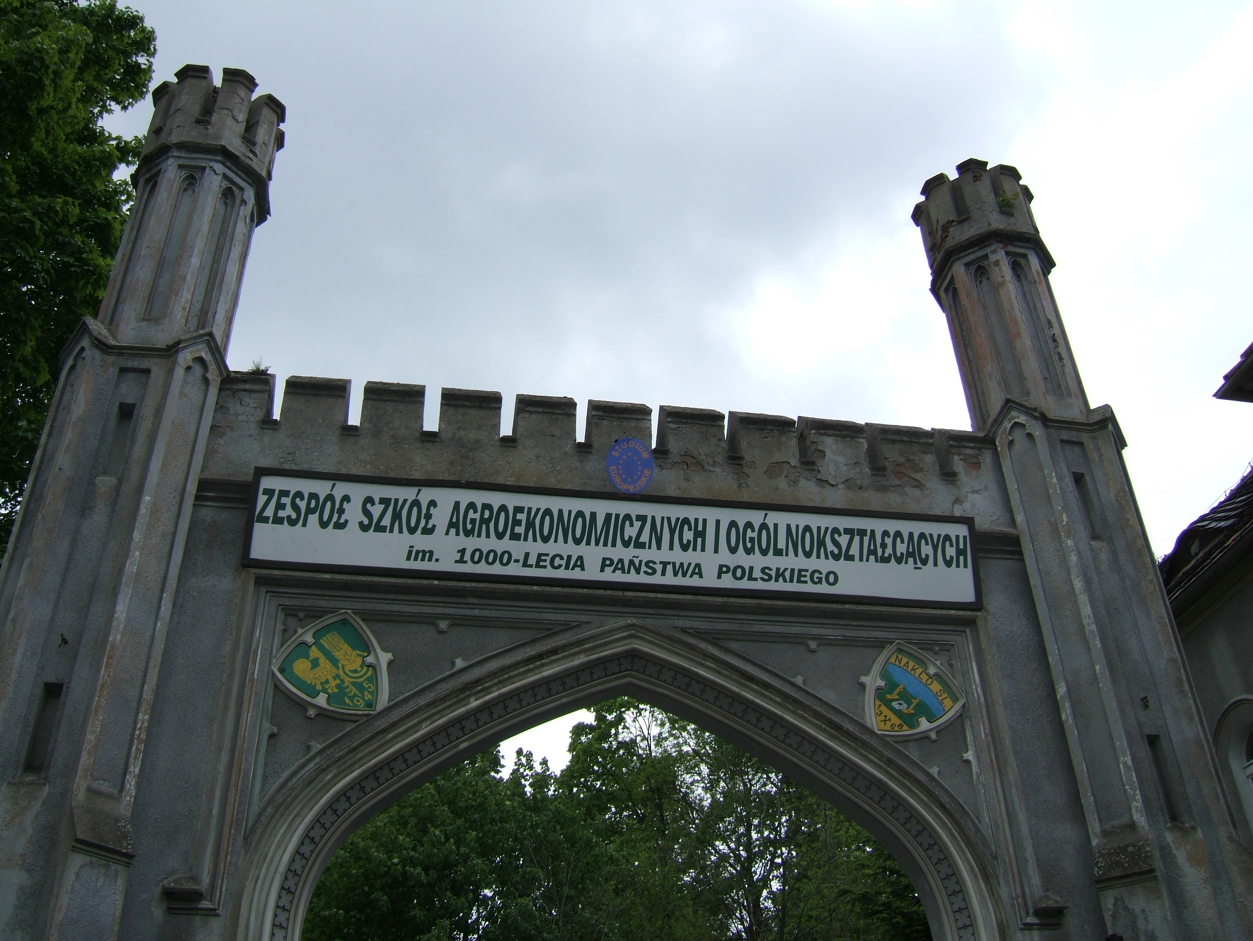 Gate of the palace in Naklo (19th century)